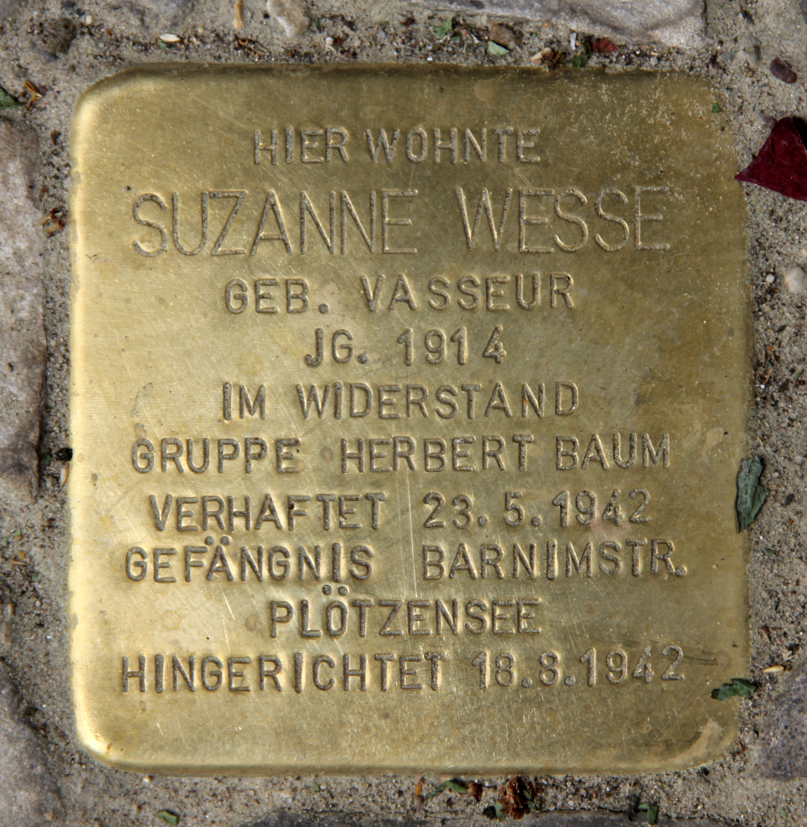 "Stolperstein" (stumbling block), Suzanne Wesse, Leibnizstraße 72, Berlin-Charlottenburg, Germany